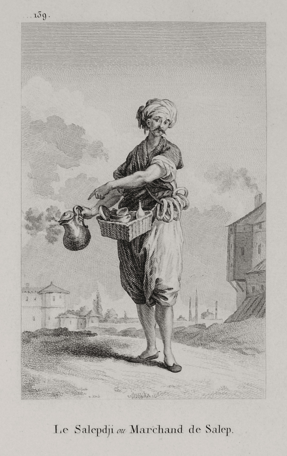 Marie-Gabriel-Florent-Auguste Comte de Choiseul-Gouffier. Voyage pittoresque de la Grèce. Paris, J.-J. Blaise M.DCCC.IX, (1782 1st volume, 1809 2nd volume, 1822 3rd volume, 1842 2nd edition)